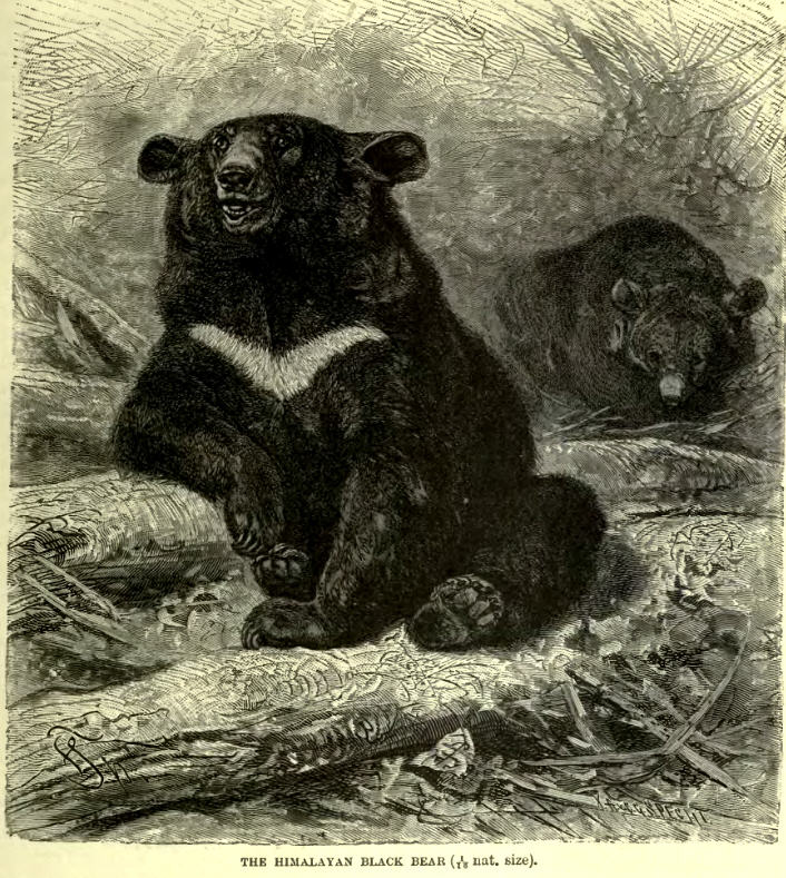 Himalayan Black Bear.